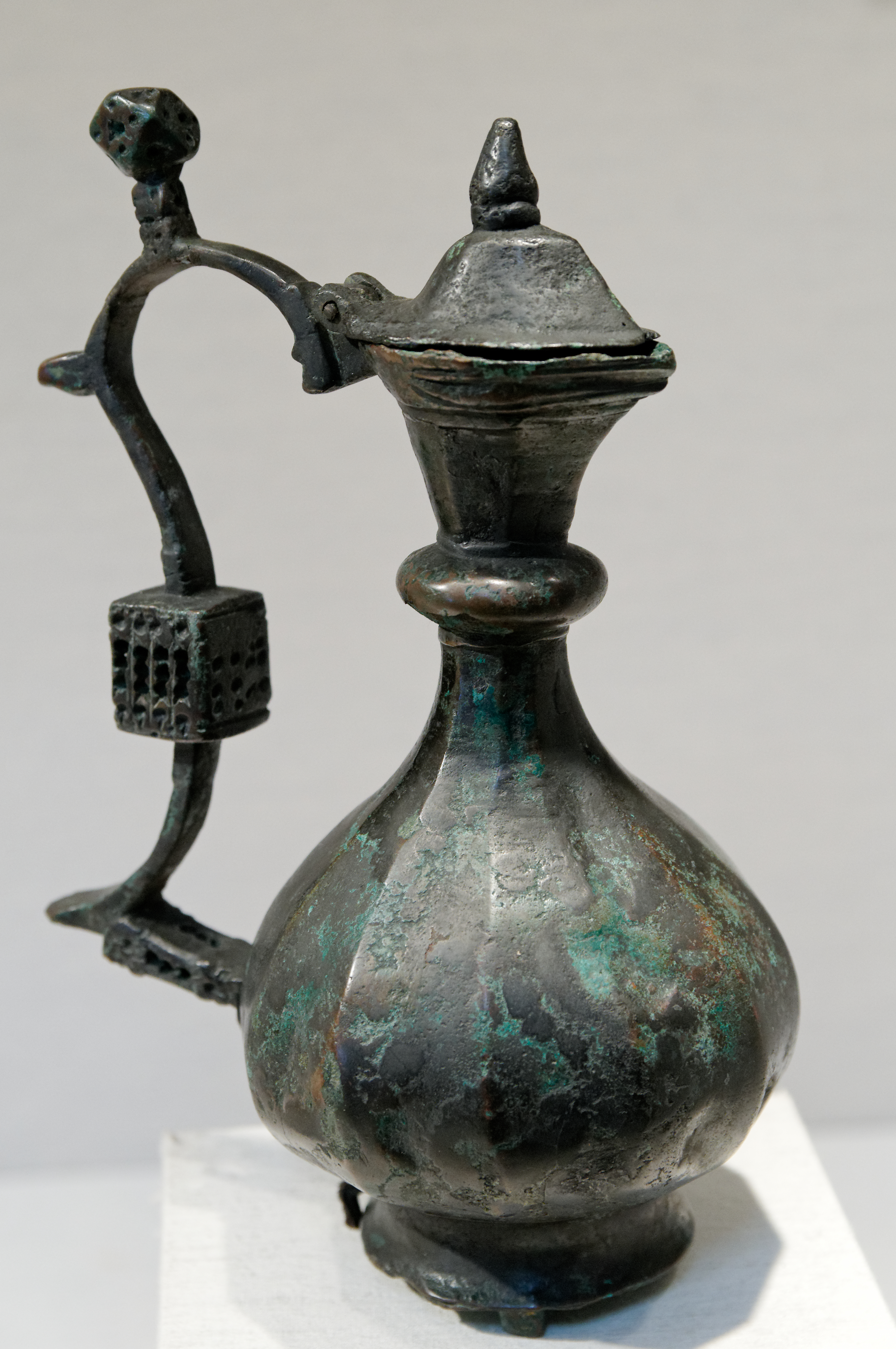 Twelve-sided ewer with a S-shaped handle, Abbasid period.